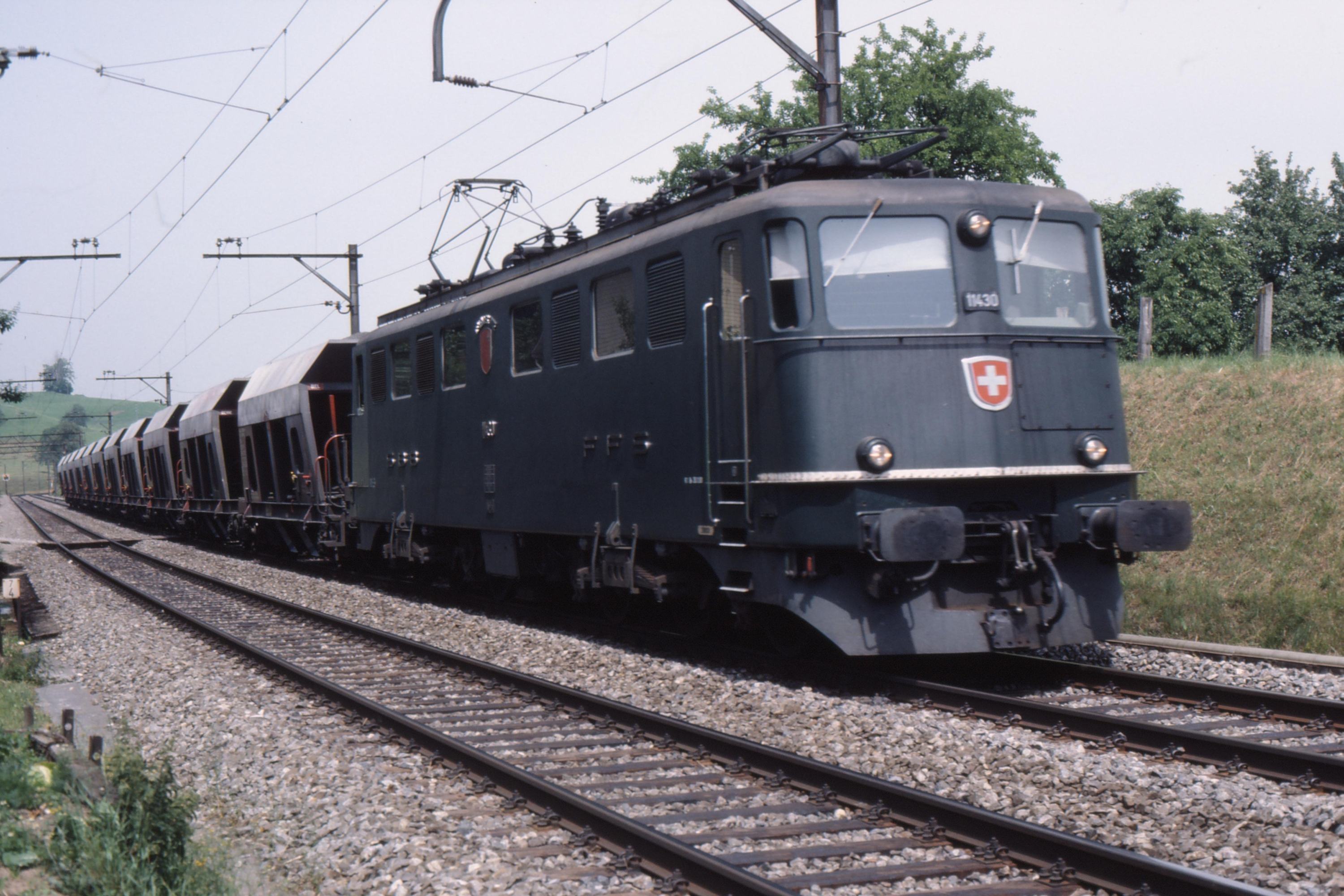 Ae 6/6 SBB Freight Train Lok on BLS Track